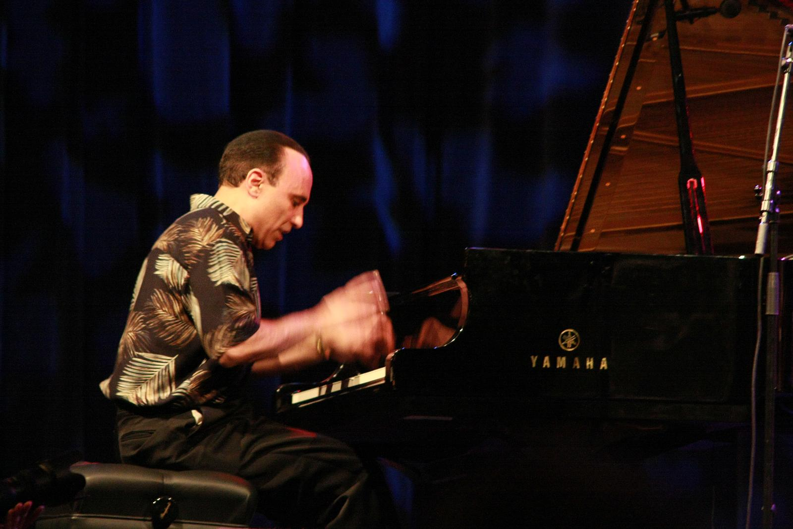 Michel Camilo doing his magic at the "Hudson" stage at the second day of the festival.